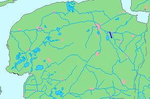 Location of a waterway (river/canal) in the Netherlends